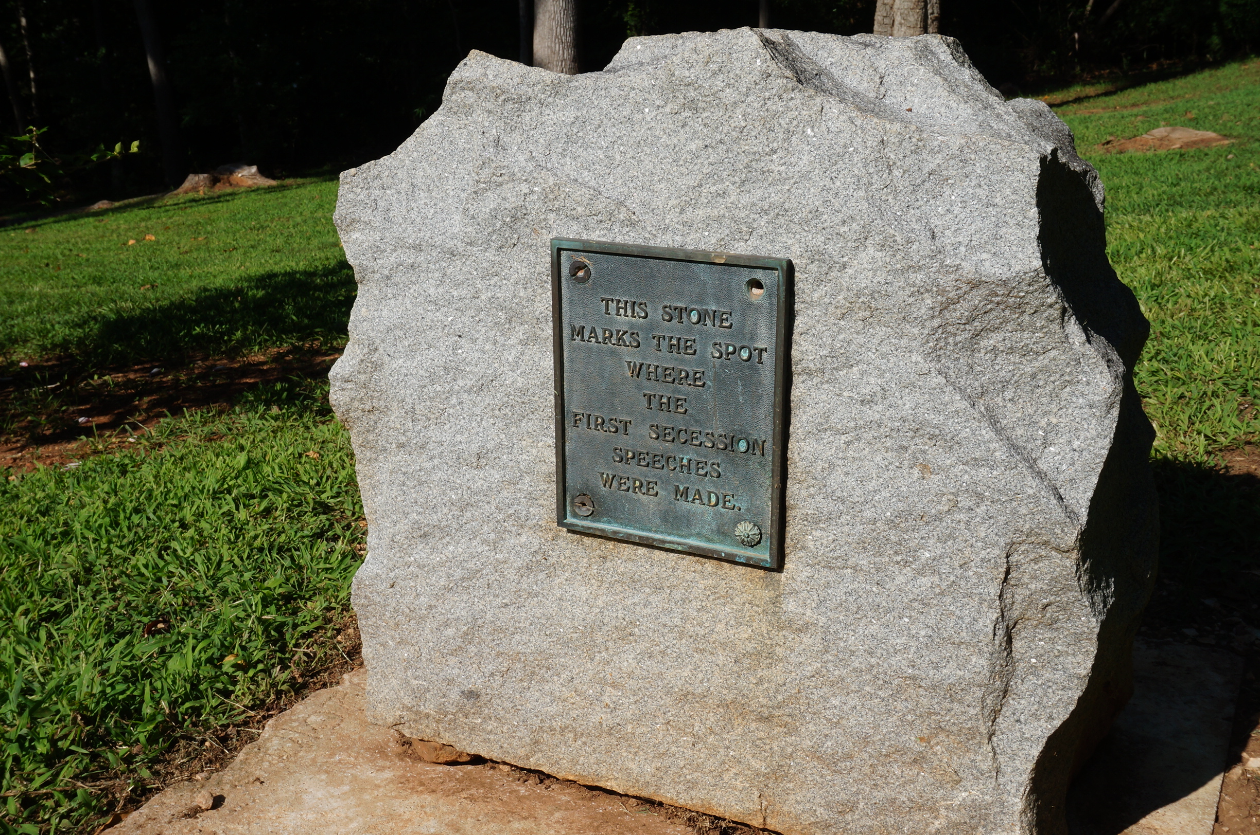 Stone containing a plaque marking the location of the first speeches for secession of the Confederate States.